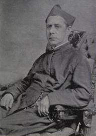 Fr Doucet SJ